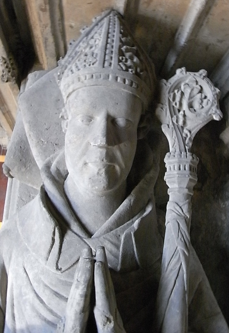 Effigy of Miles Salley(d.1516), Bishop of Llandaff. The Gaunt's Chapel, Bristol, north wall of chancel.